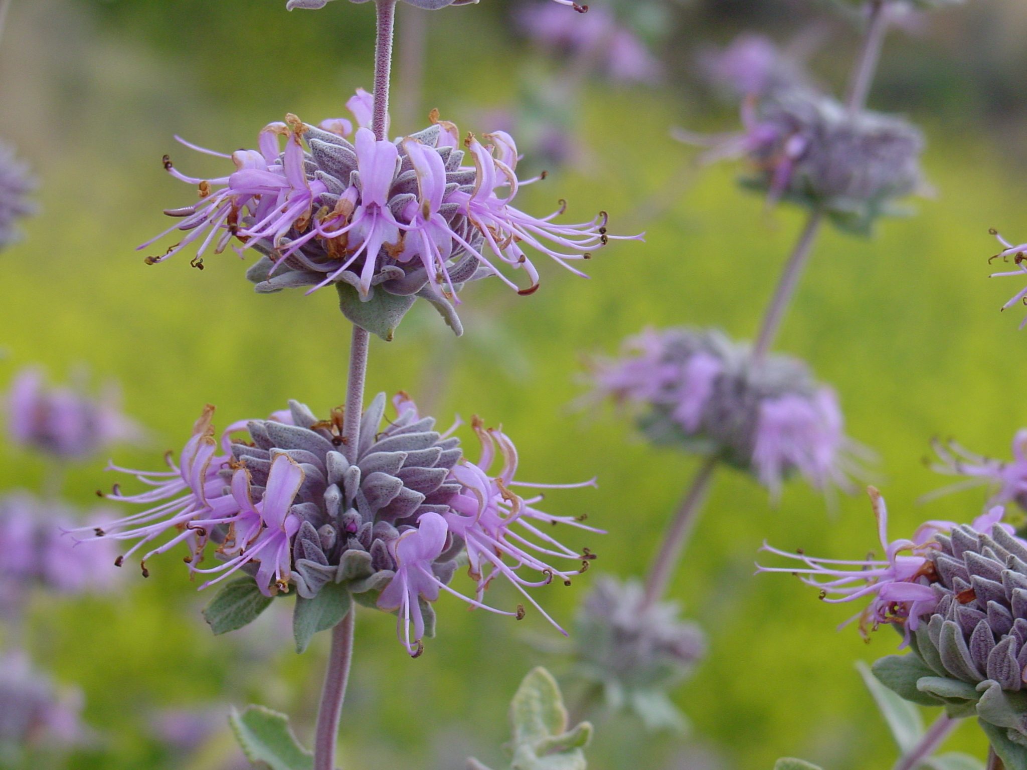 Author: Noah Elhardt